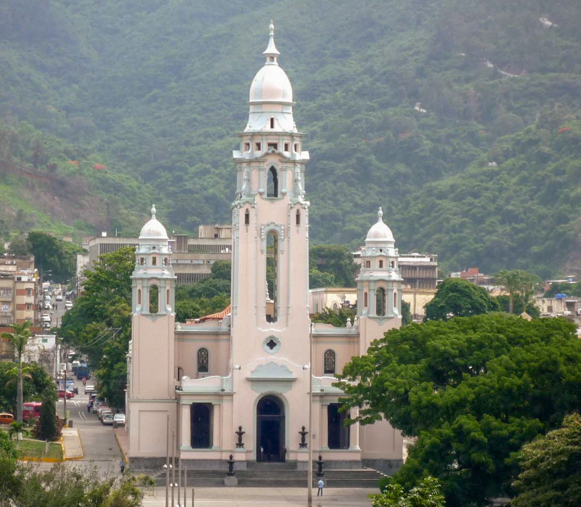 Panteon Nacional, Caracas, Venezuela